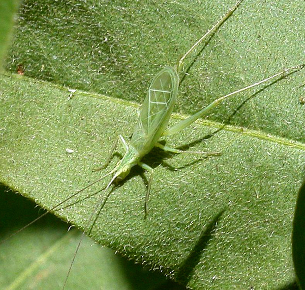 Taken at Consumnes River Preserve in California.